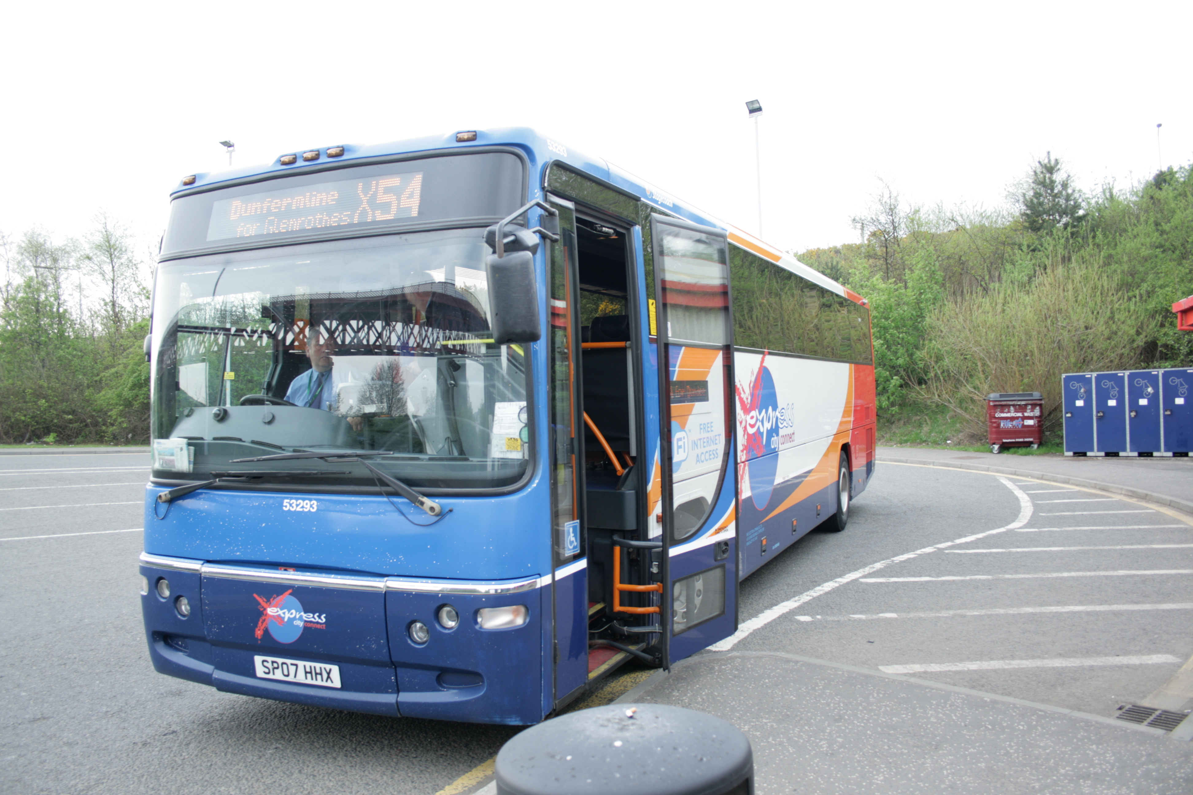 SP07 HHX, a Volvo B7R with Plaxton Profile bodywork, gets ready to leave Ferrytoll Park and Ride with the X54 for Dundee.